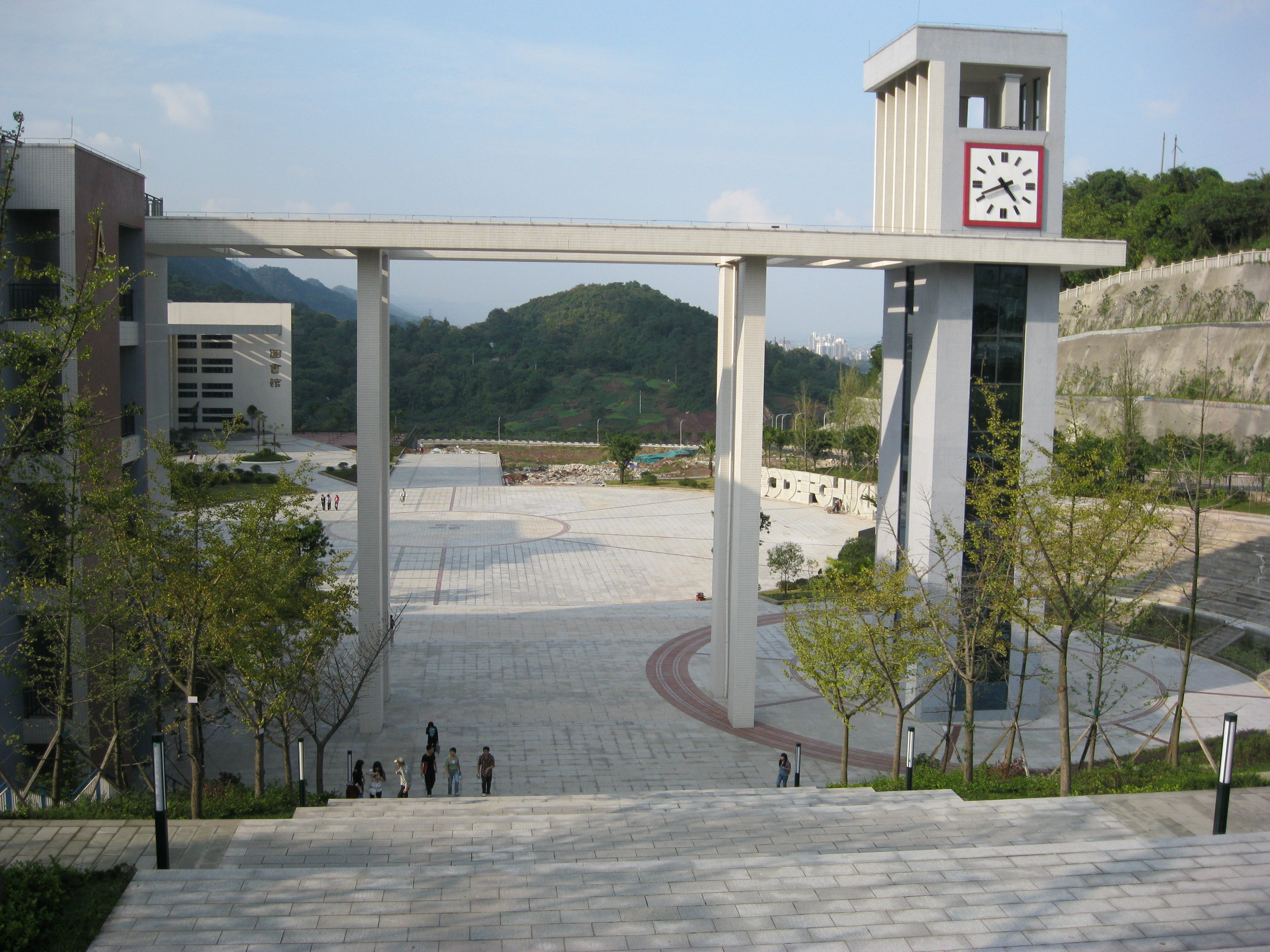 Sichuan International Studies University